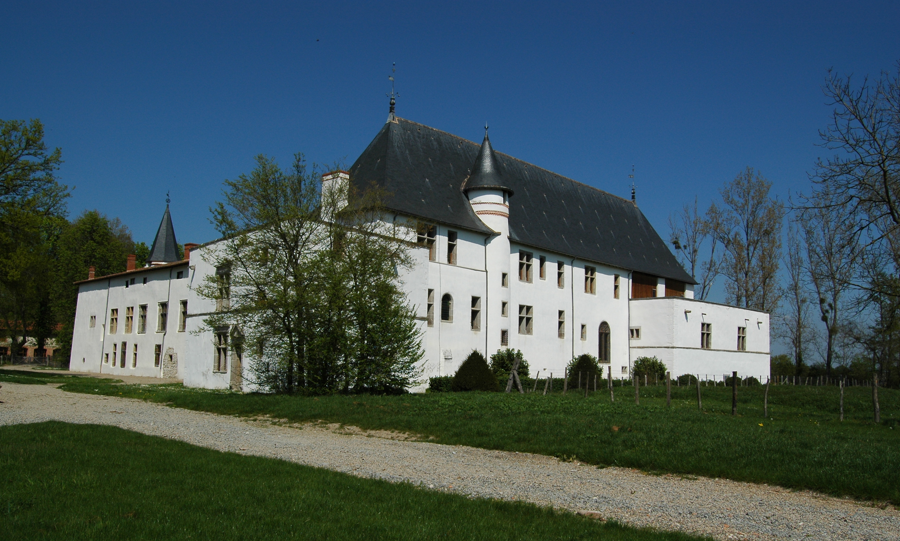 Château de La Bastie d'Urfé, south-western aspect